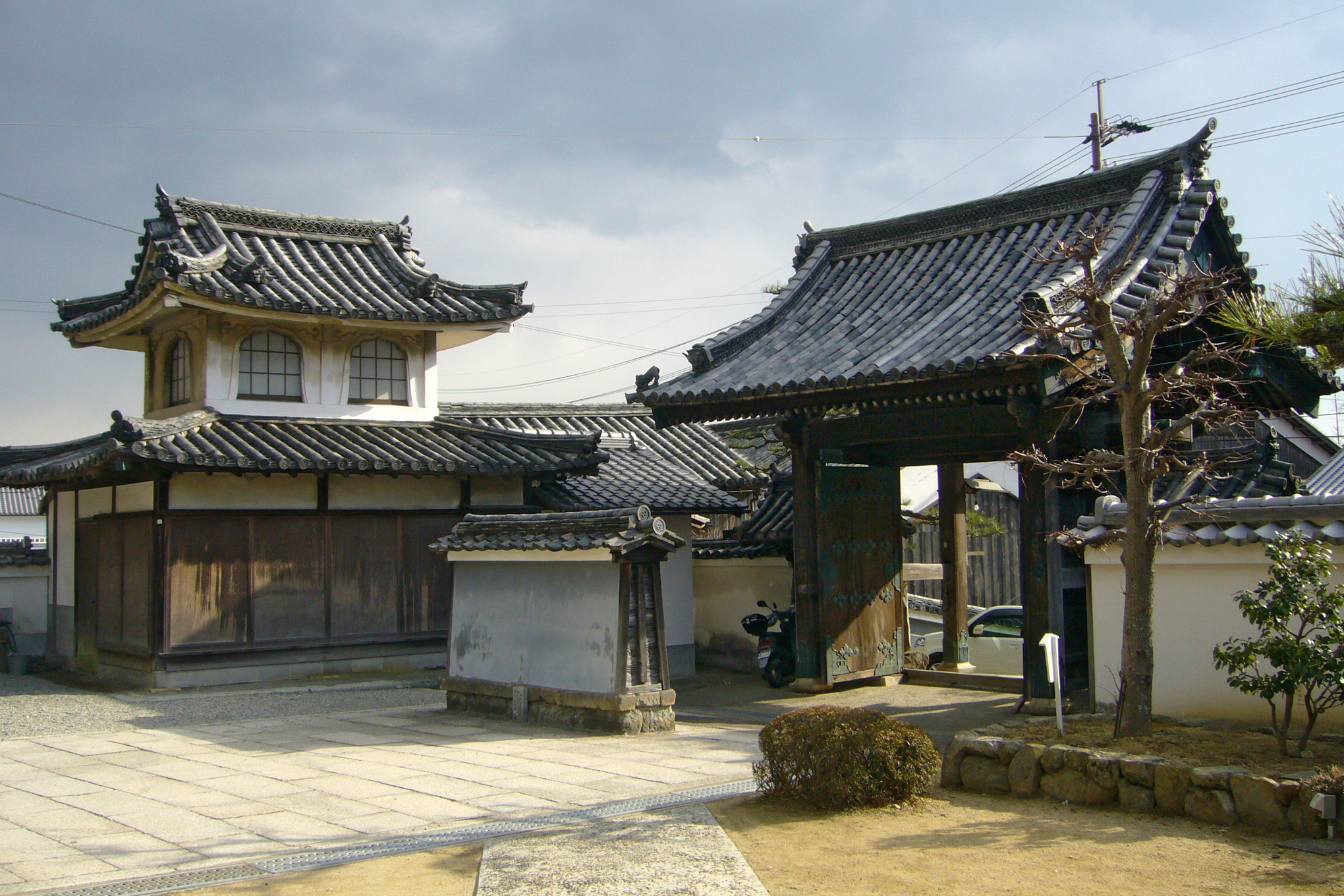 Myodoji in Sakoshi, Ako, Hyogo prefecture, Japan